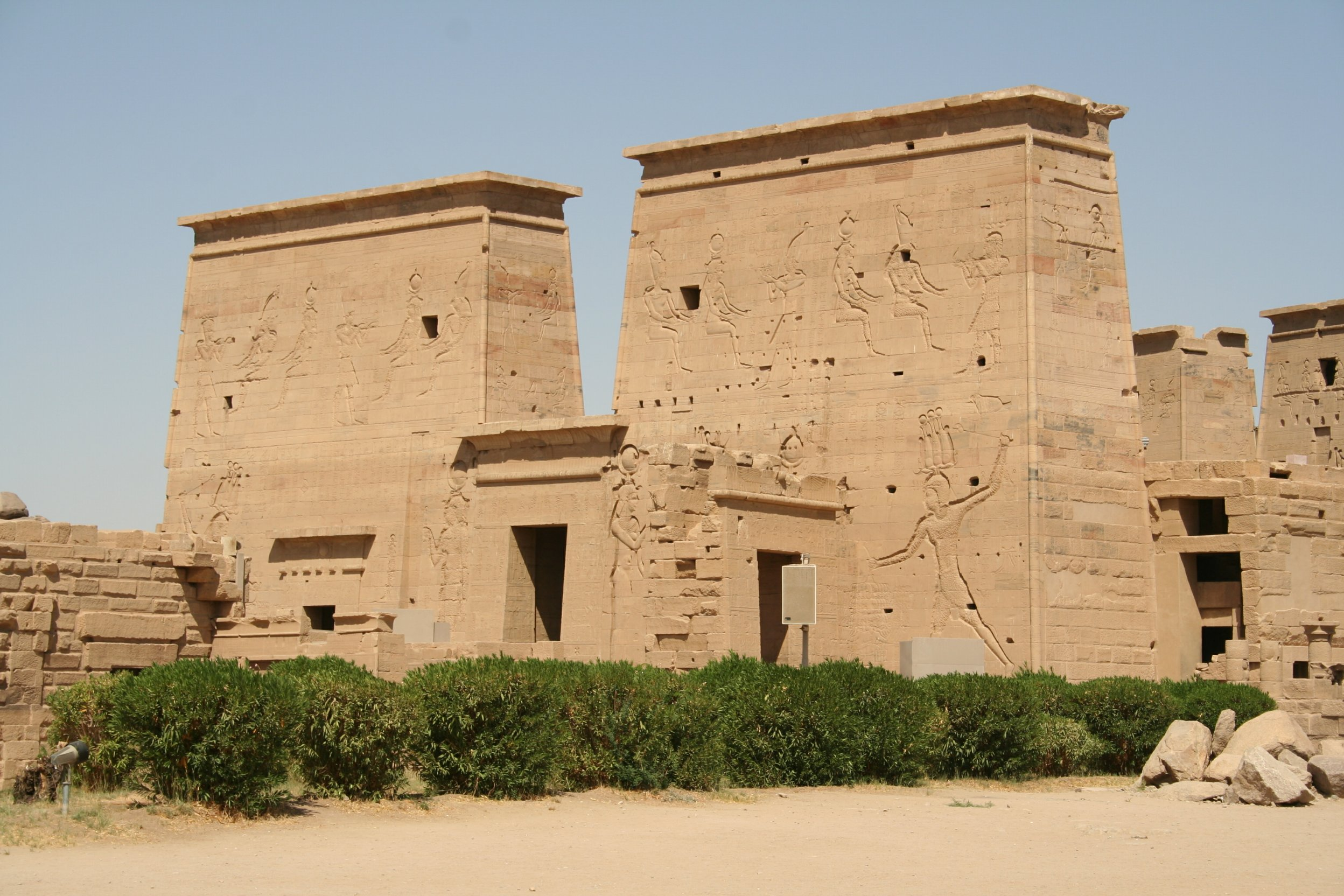 Temple of Isis, Philae, The entrance and first pylon.